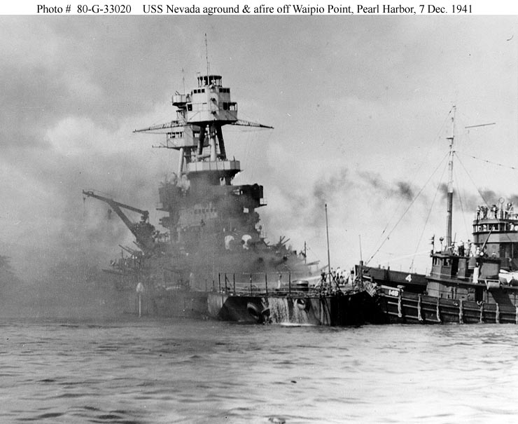 Nevada (BB-36) aground and burning off Waipio Point, after the end of the Japanese air raid. Ships assisting her, at right, are the harbor tug Hoga (YT-146) and Avocet (AVP-4).